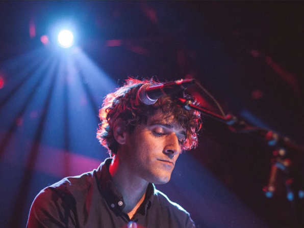 Matt Mondanile of Real Estate performing with his band Ducktails at The Bowery Ballroom in August 2015